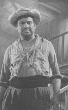 Francisco Audenino-actor argentino